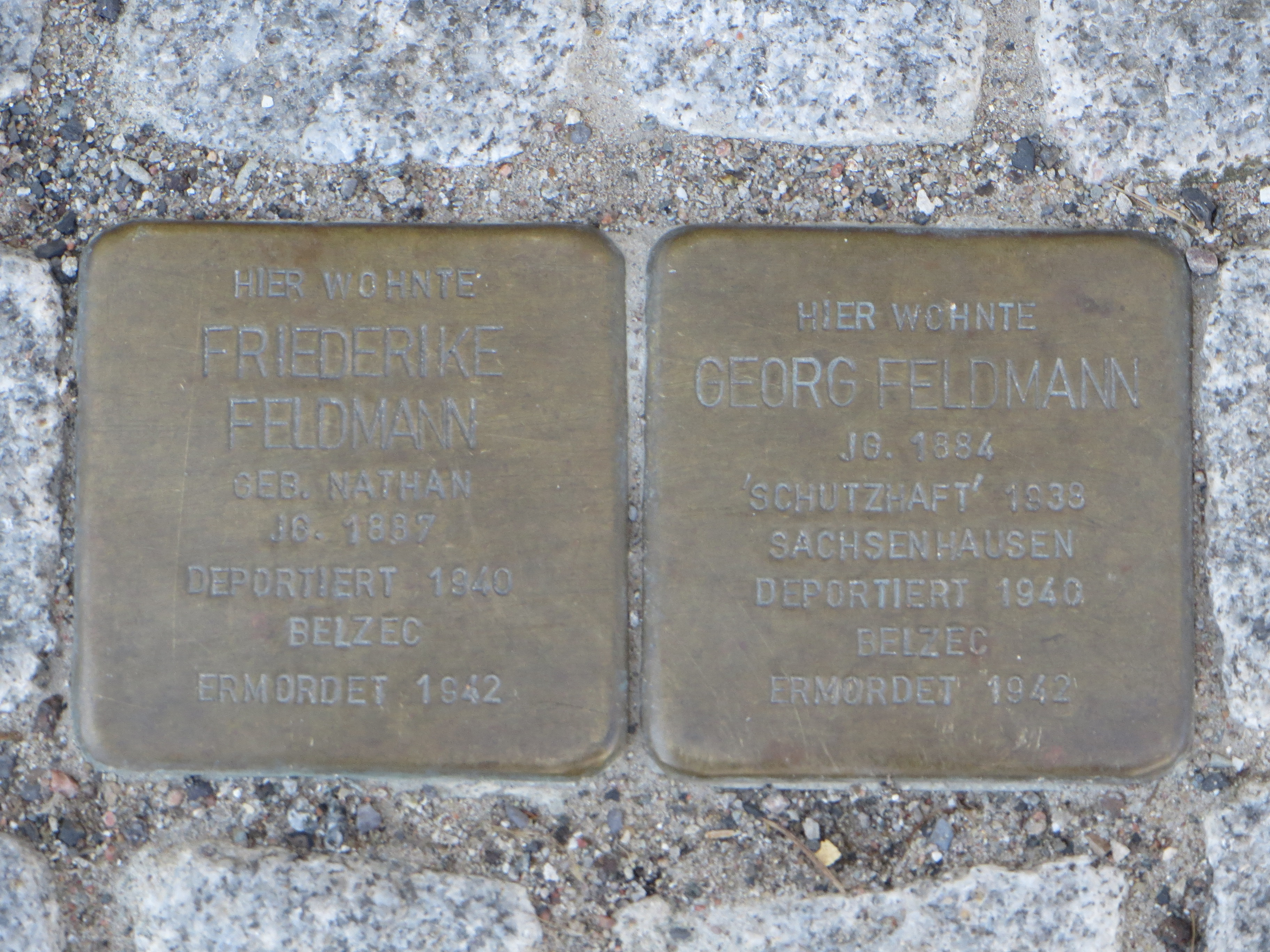 Gützkower Straße 39 in Greifswald: Stolpersteine for Freiderike and Georg Feldmann